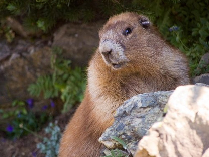 This photo was taken on July 27, 2009, in the Olympic Forest in Washington State, where the animal is endemic.